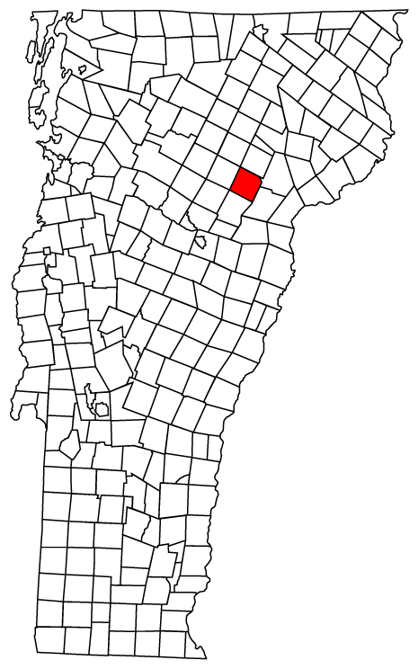 Map of Vermont towns with Cabot highlighted